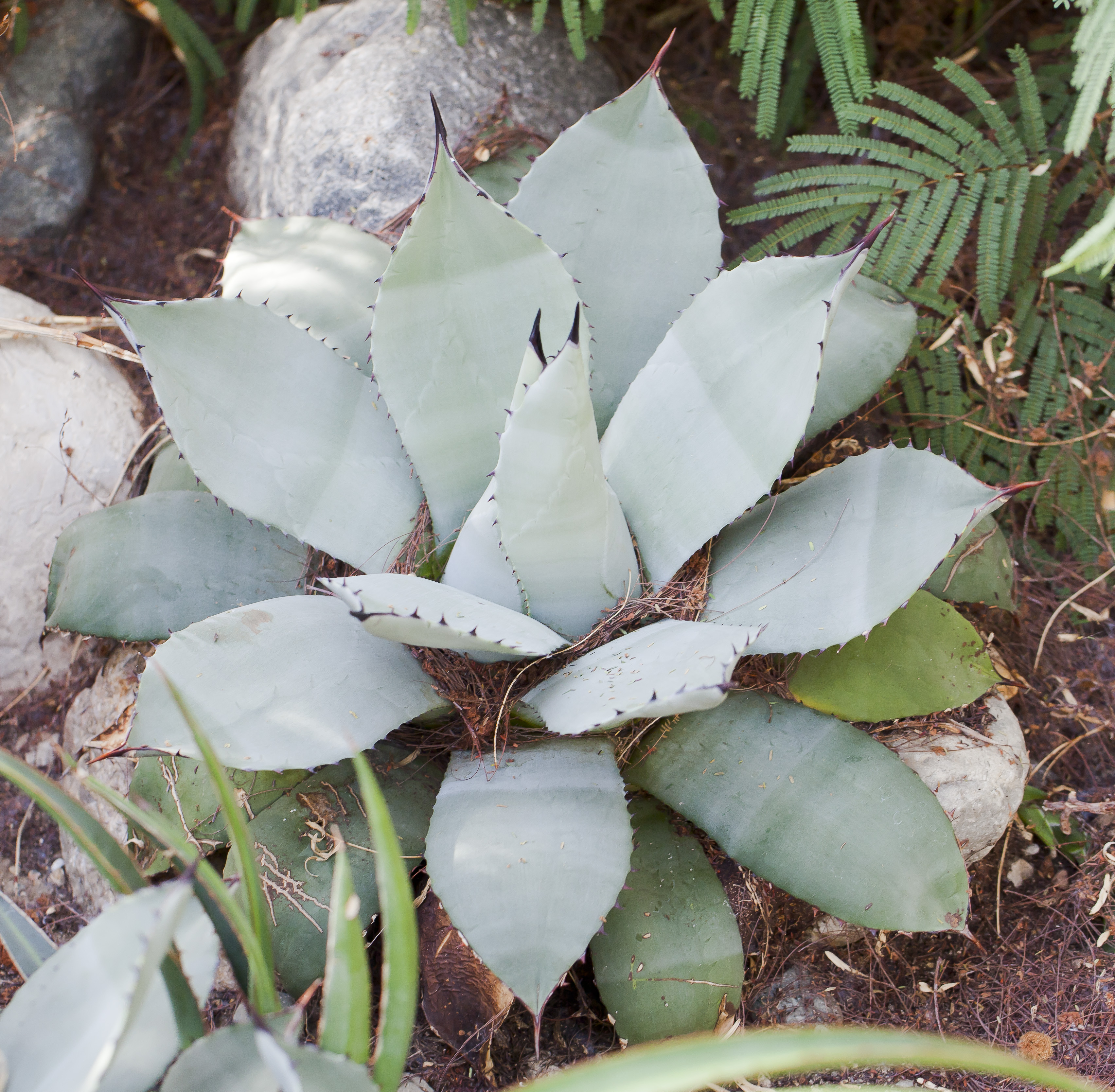 Parry's agave (Agave parryi), Botanic Conservatory, Fort Wayne, USA